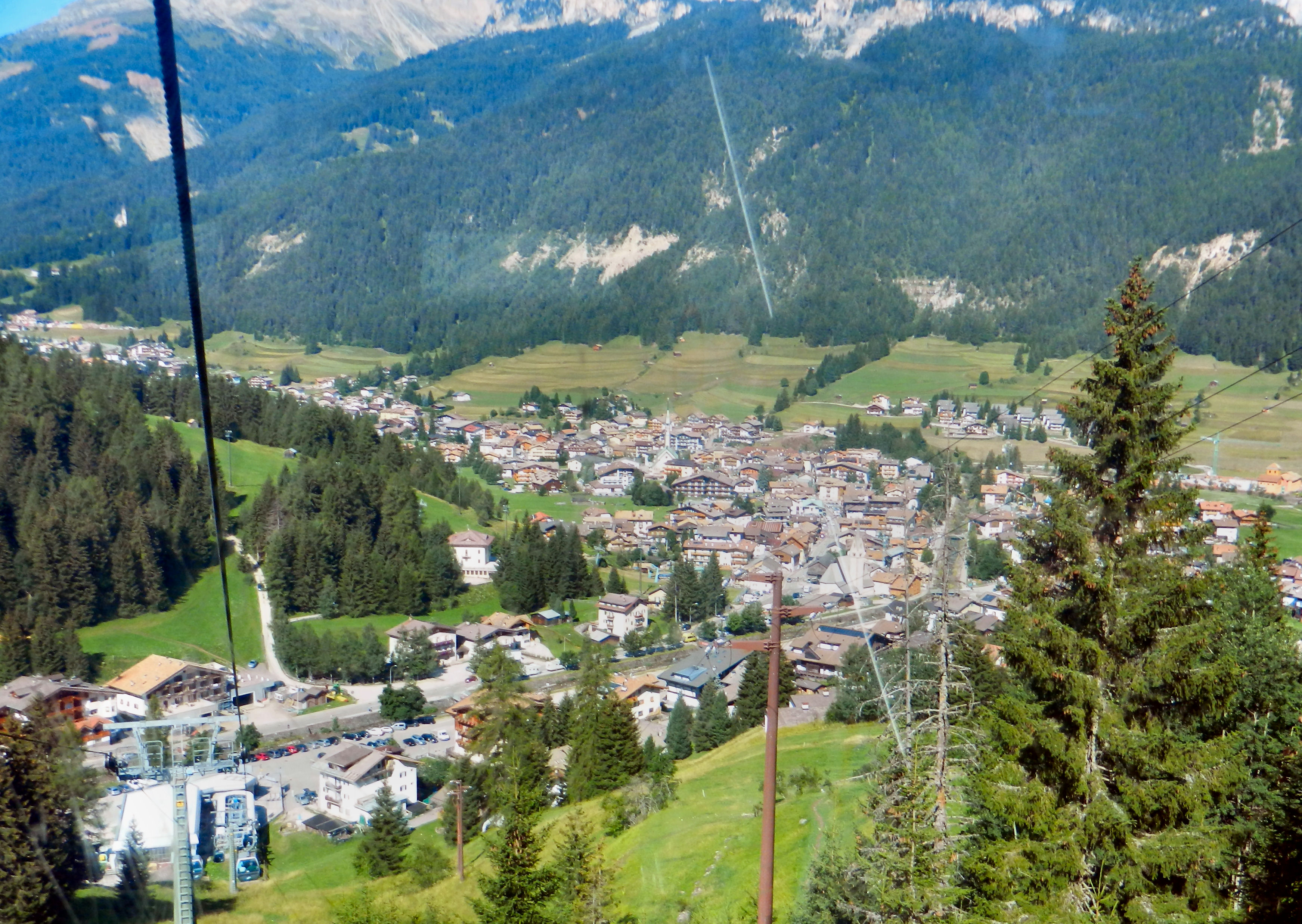 View of Pozza di Fassa (province of Trento, Italy) from Buffaure cable car